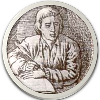 Maksim Sozontovich Berezovsky (1745-1777), Ukrainian composer